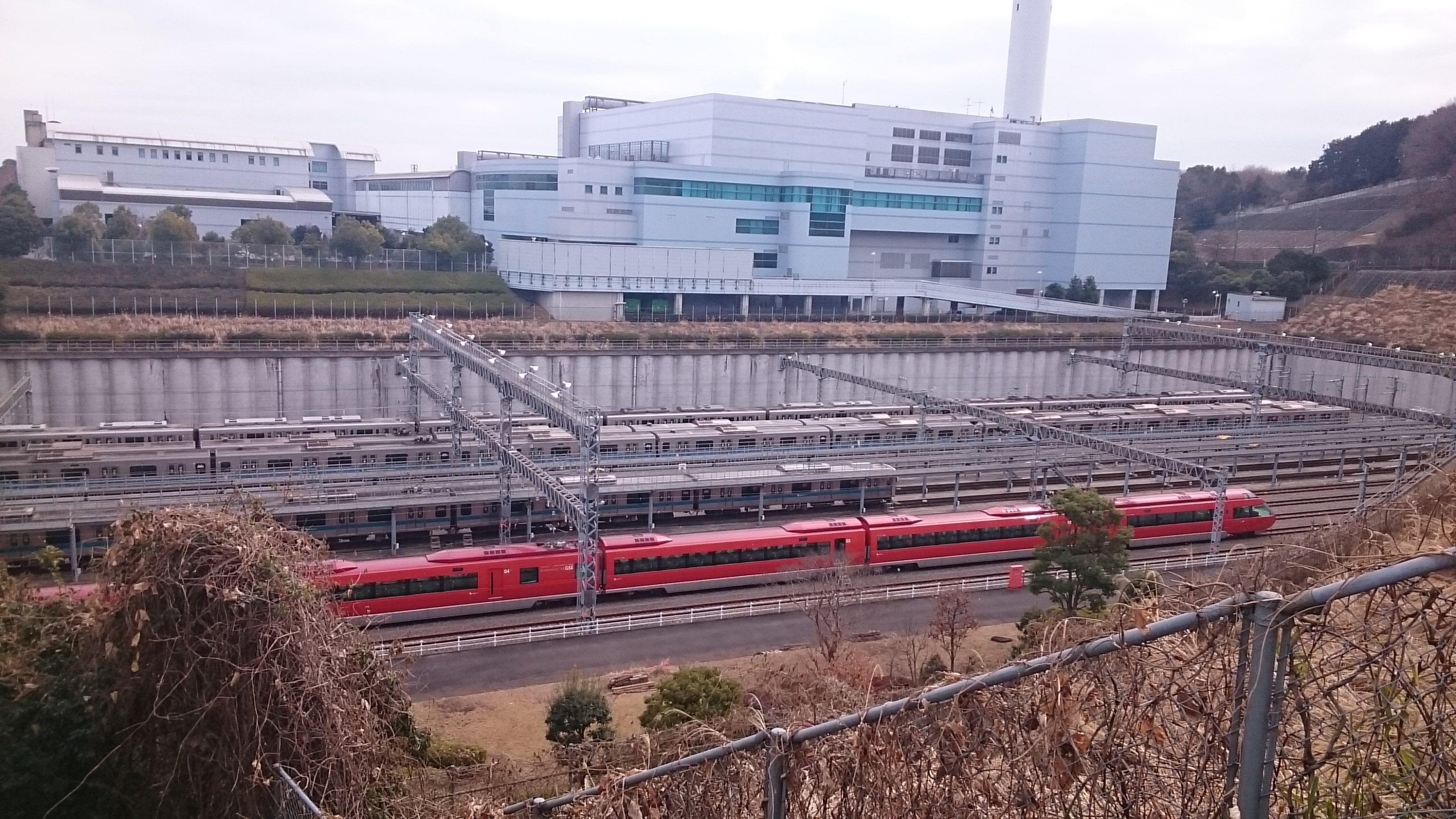 Odakyu Electric Railway Karakida Depot in Tokyo, with an Odakyu 70000 series "GSE" EMU in the foreground